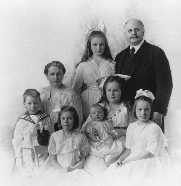 Photograph, Andrew Ross McMaster & family, Montreal, QC, about 1910, Rice, Silver salts on paper - Gelatin silver process - 25 x 20 cm